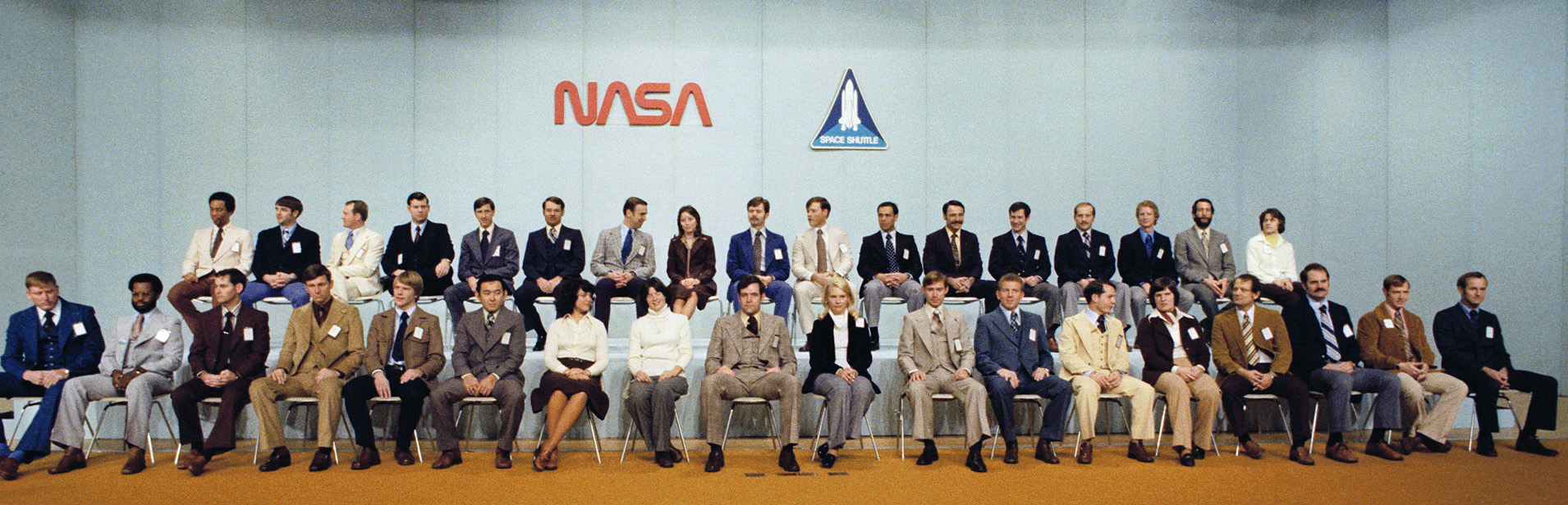 The eighth group of NASA astronauts selected in 1978. Back row, L-R: Guion S. Bluford, Daniel C. Brandenstein, James F. Buchli, Michael L. Coats, Richard O. Covey, John O. Creighton, John M. Fabian, Anna L. Fisher, Dale A. Gardner, Robert L. Gibson, Frederick D. Gregory, S. David Griggs, Terry J. Hart, Frederick M. Hauck, Steven A. Hawley, Jeffrey A. Hoffman, Shannon W. Lucid. Front row, L-R: Jon A. McBride, Ronald E. McNair, Richard M. Mullane, Steven R. Nagel, George D. Nelson, Ellison S. Onizuka, Judith A. Resnik, Sally K. Ride, Francis R. Scobee, M. Rhea Seddon, Brewster H. Shaw, Loren J. Shriver, Robert L. Stewart, Kathryn D. Sullivan, Norman E. Thagard, James D.A. van Hoften, David M. Walker, Donald E. Williams.